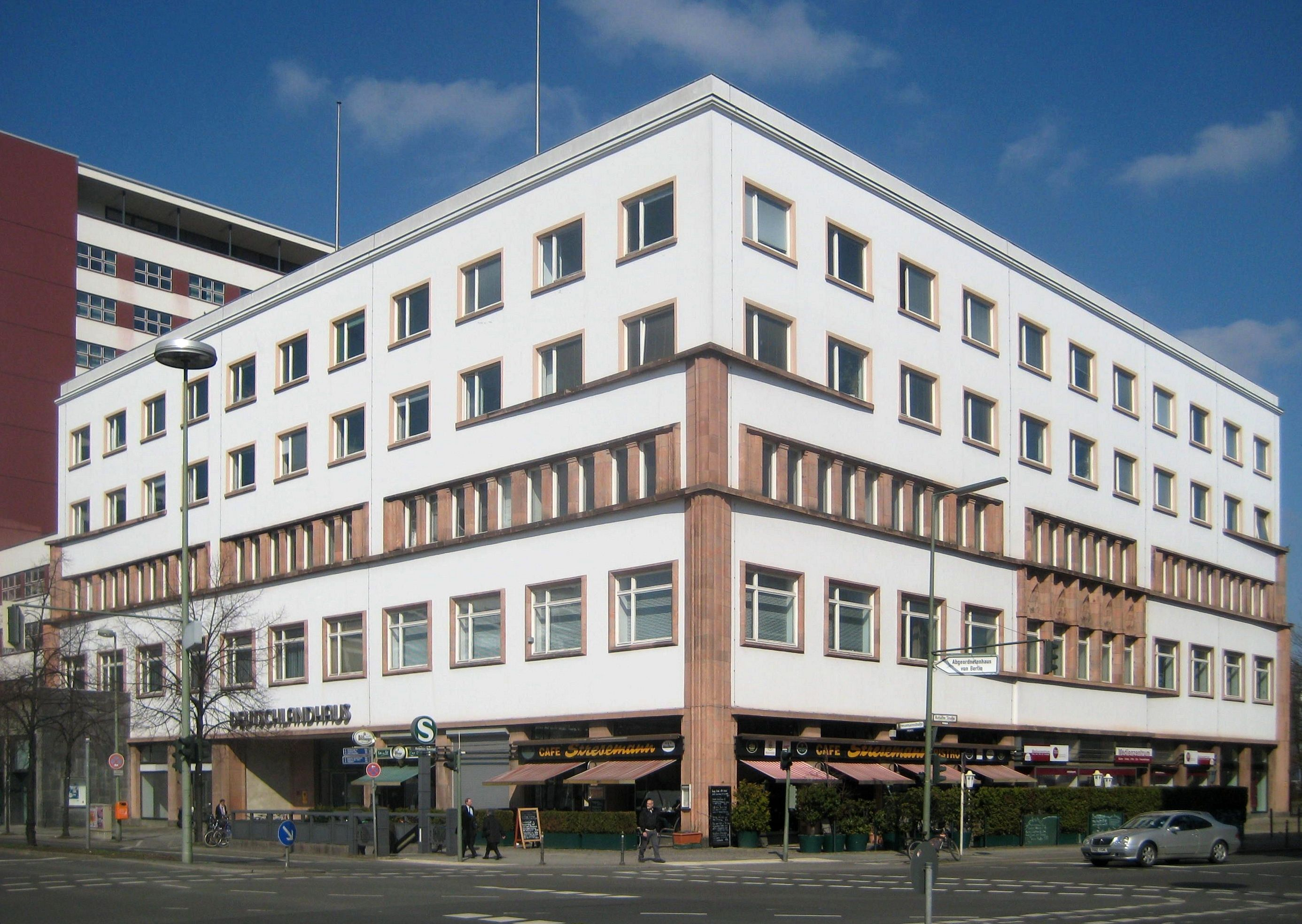 The Deutschlandhaus (House of Germany) at Stresemannstraße No. 90, corner of Anhalter Straße (right), in Berlin-Kreuzberg. It was built from 1926 to 1931 to a design by the architects Richard Bielenberg & Rudolf Moser in the Expressionist style.